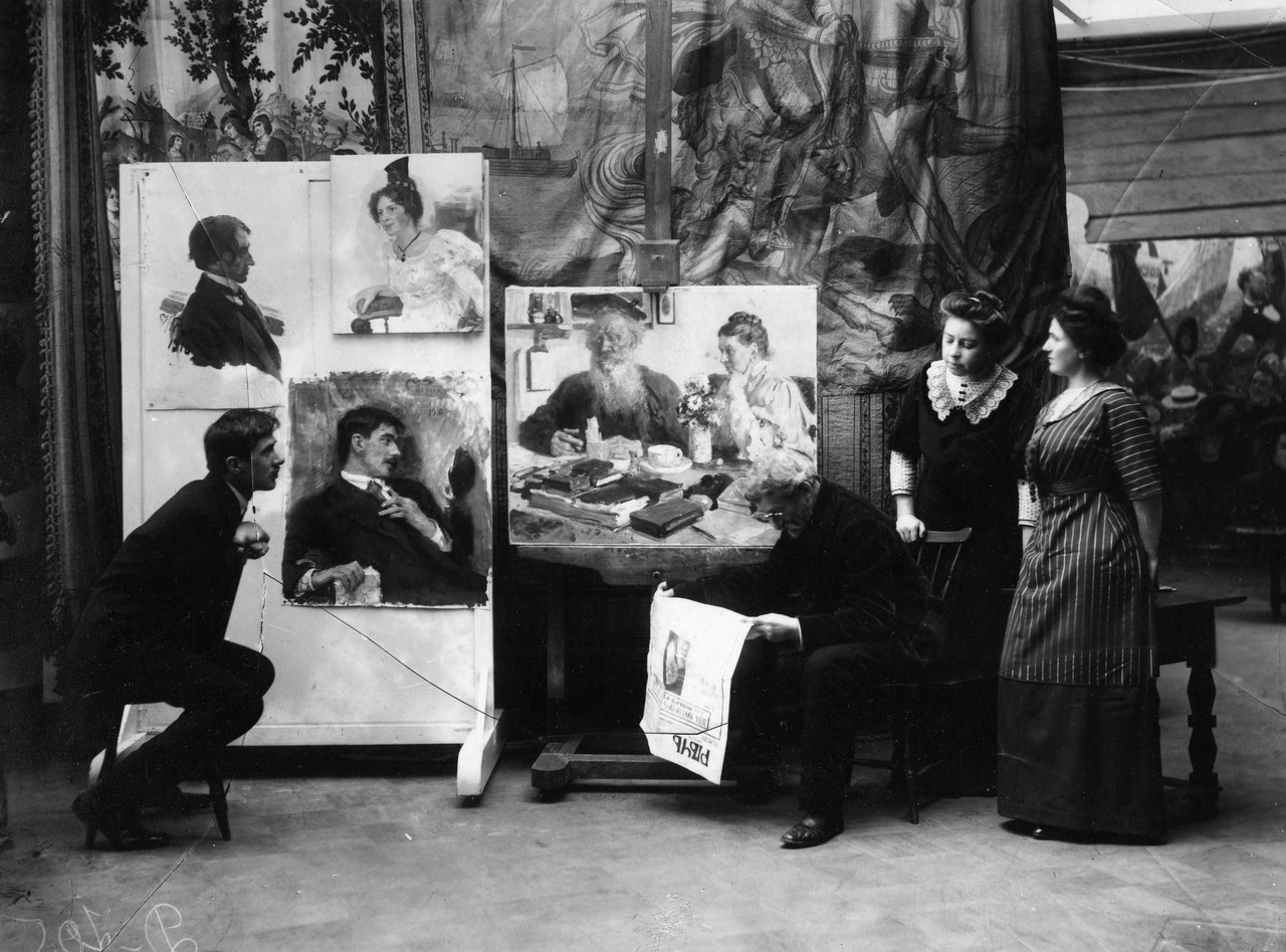 Ilya Repin reads the news about Leo Tolstoy death. Present Korney Chukovsky and Nordman-Severova (Repin's wife). November 1910, Kuokkala